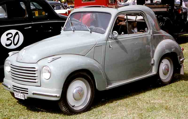 Fiat 500C Convertible 1954